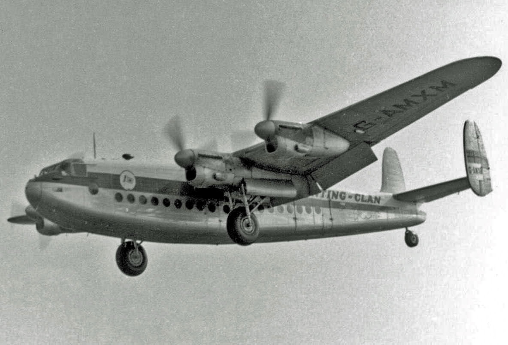 Avrop 685 York G-AMXM of Hunting-Clan Air Transport at Manchester (Ringway) Airport in 1955